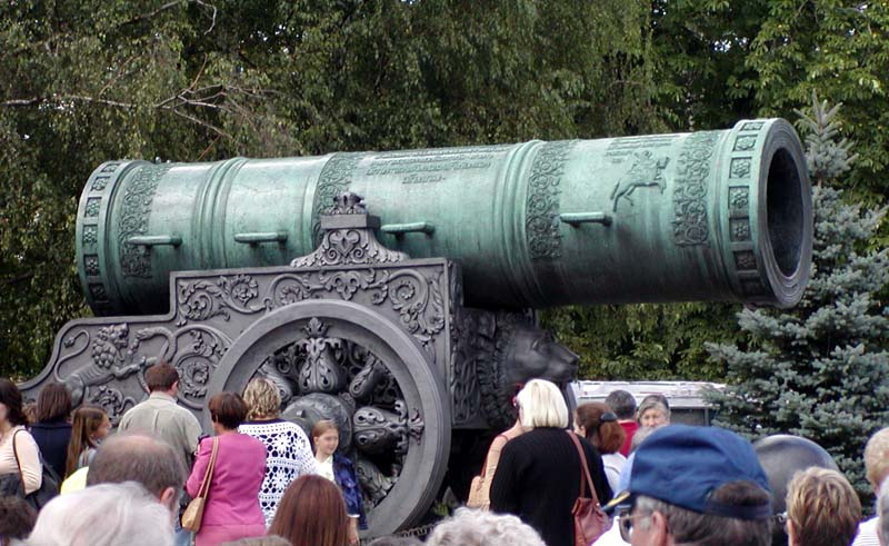 Photo of Tsar Cannon in Moscow Kremlin